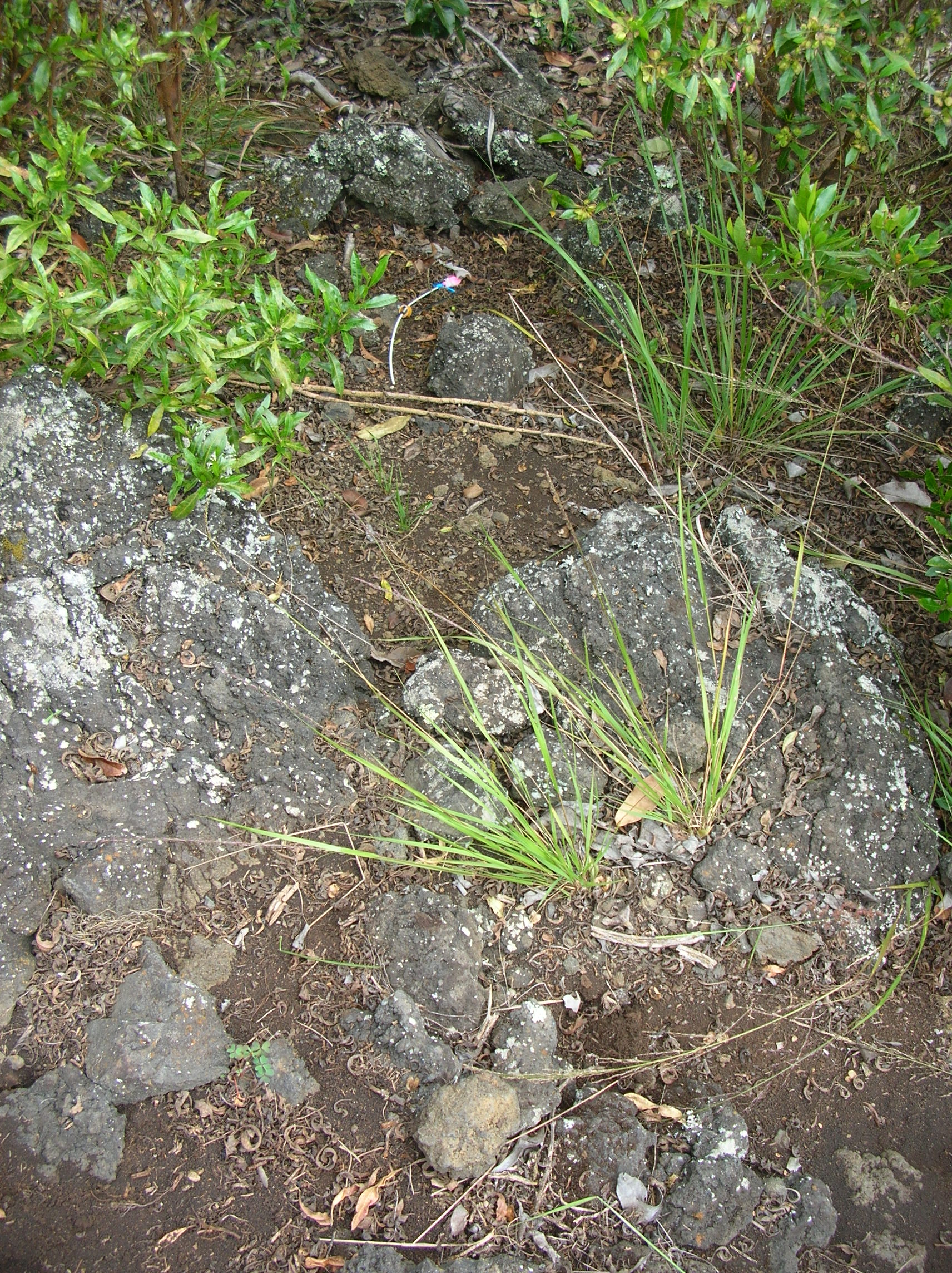 Panicum tenuifolium (habit). Location: Maui, Auwahi